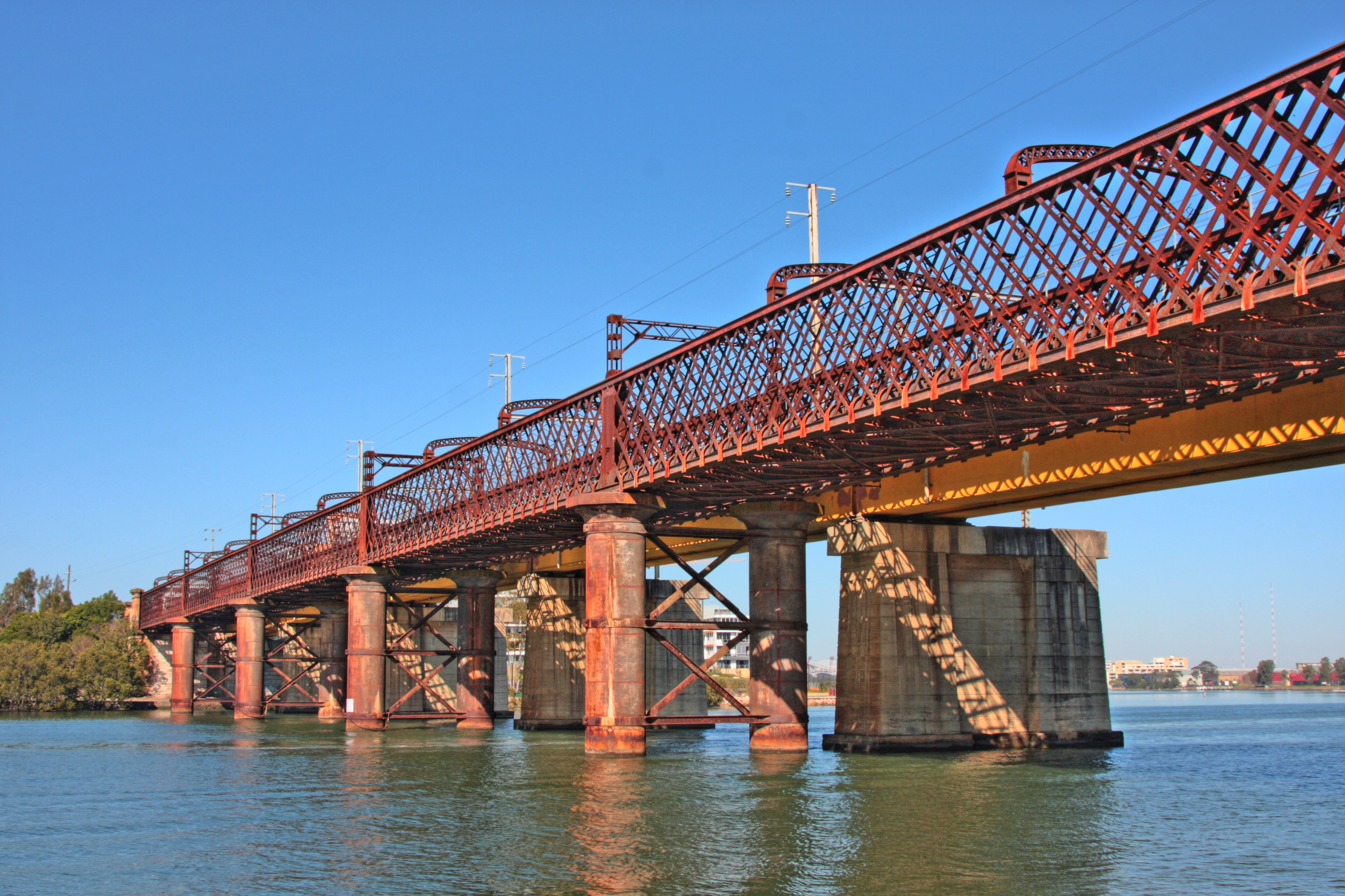 John Witton Railway Bridge Meadowbank, New South Wales